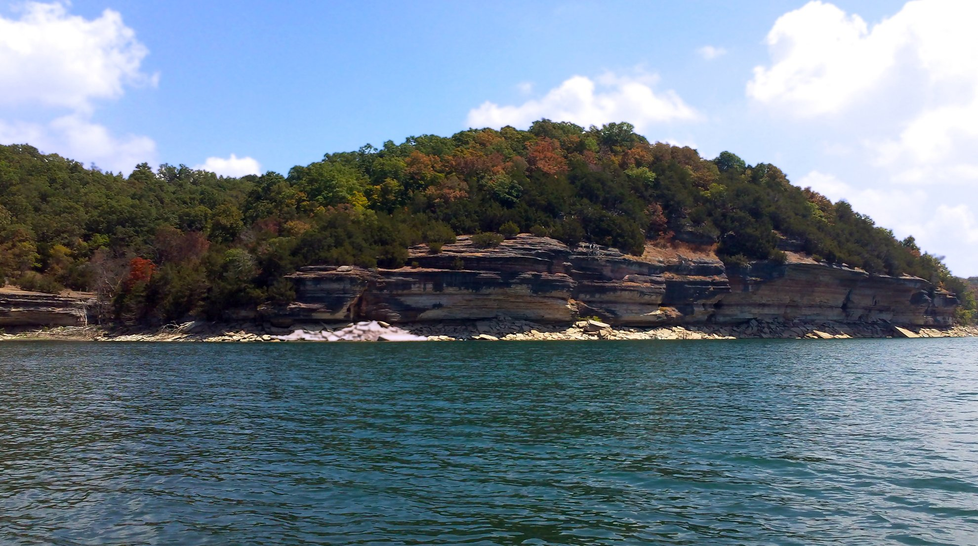 The persistent hot weather this summer has caused many of the trees to go dormant early.